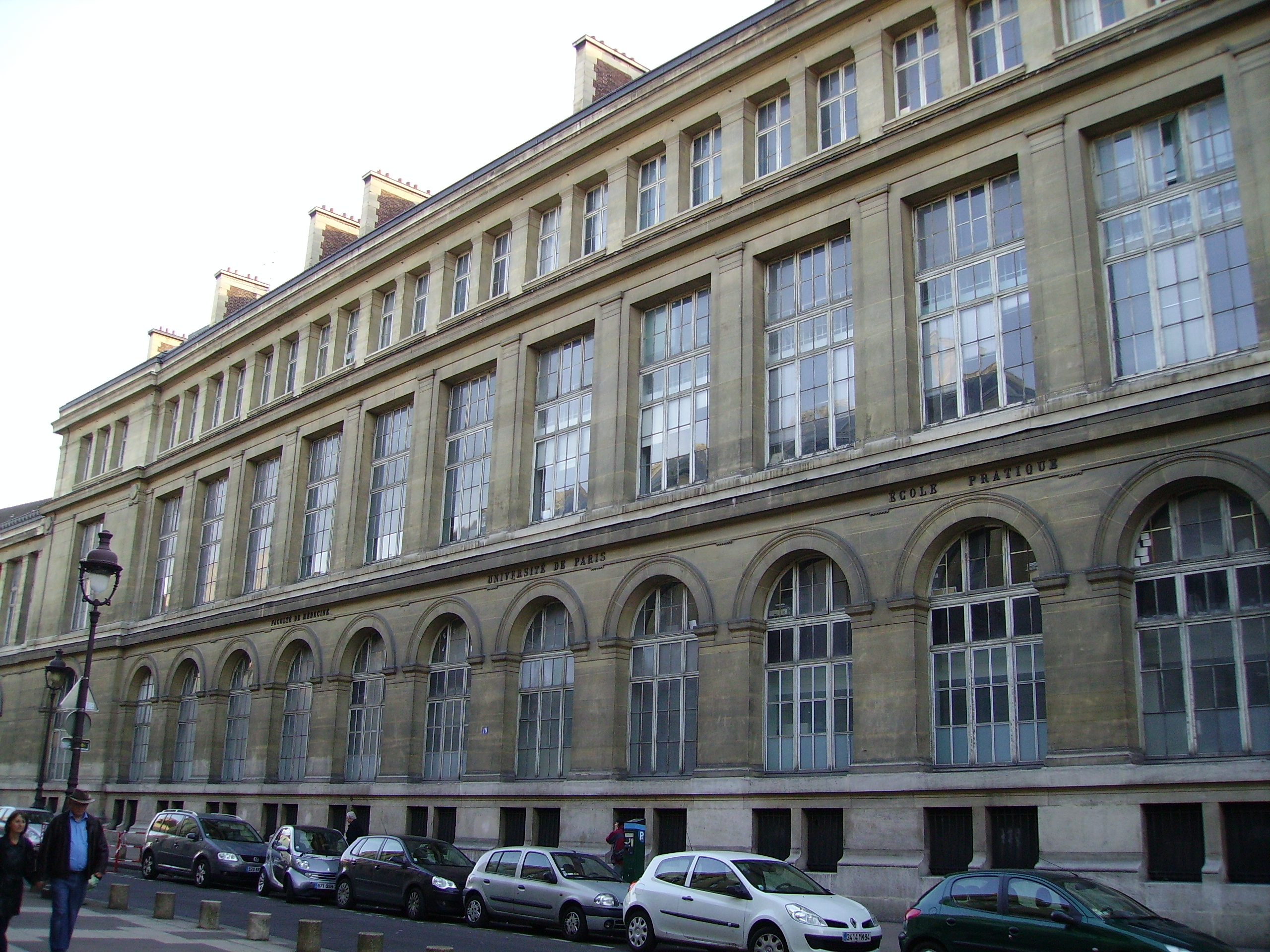 Building of the ancient practical school of the faculty of medecine of the university of Paris